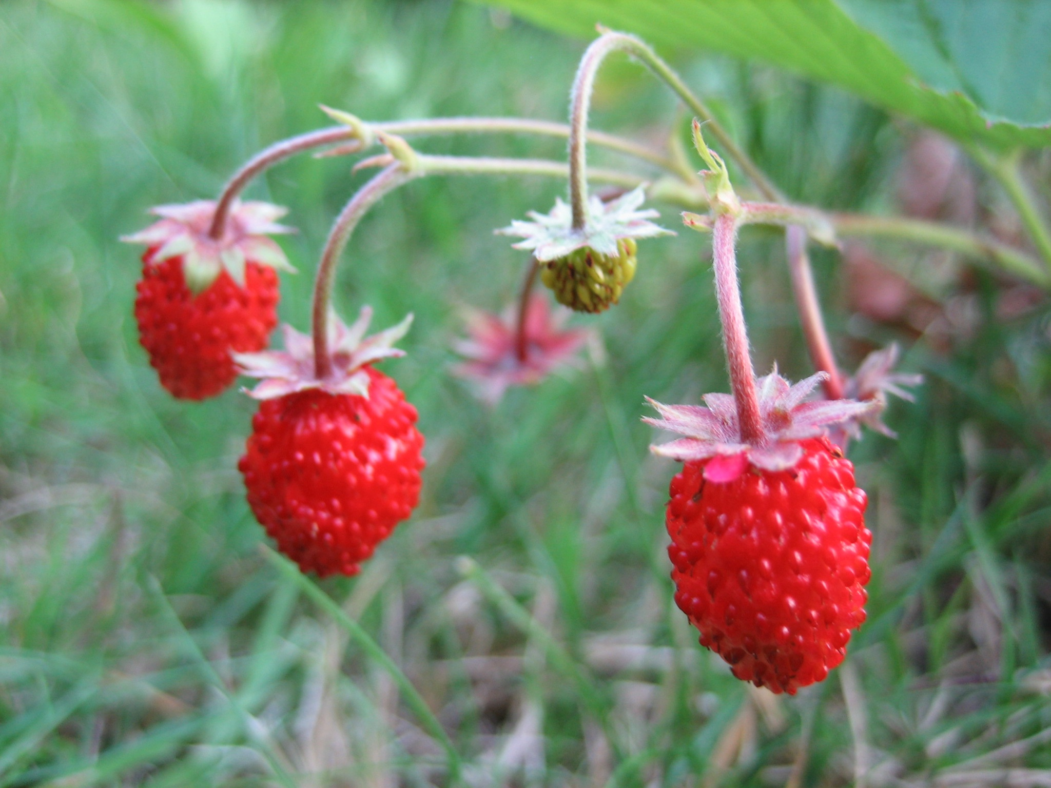 a closeup photograph of 3_wild_strawberries